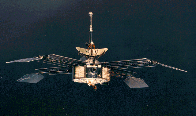 Picture of Mariner 3 or 4.